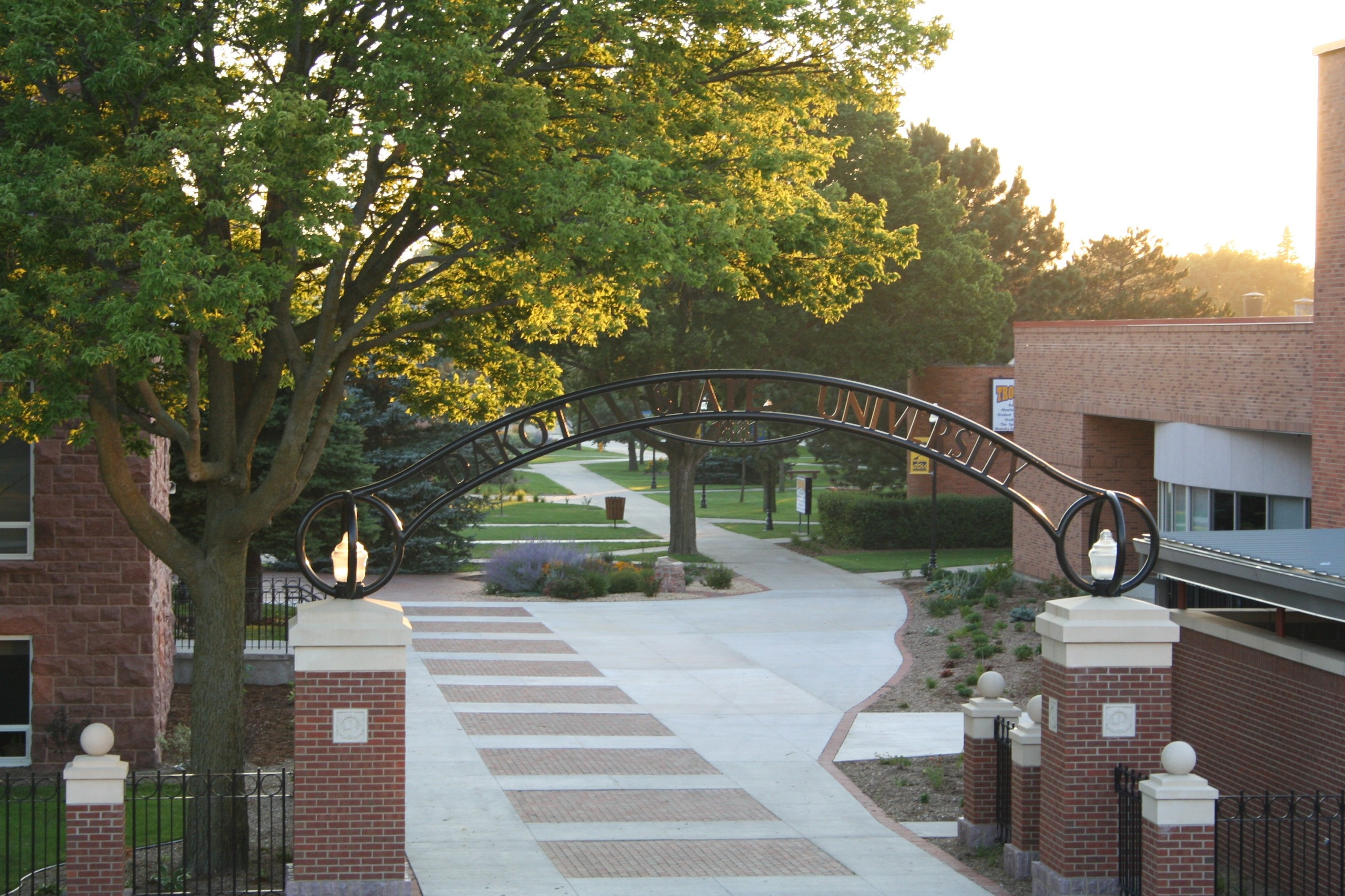 Dakota State University Arch, Madison, South Dakota